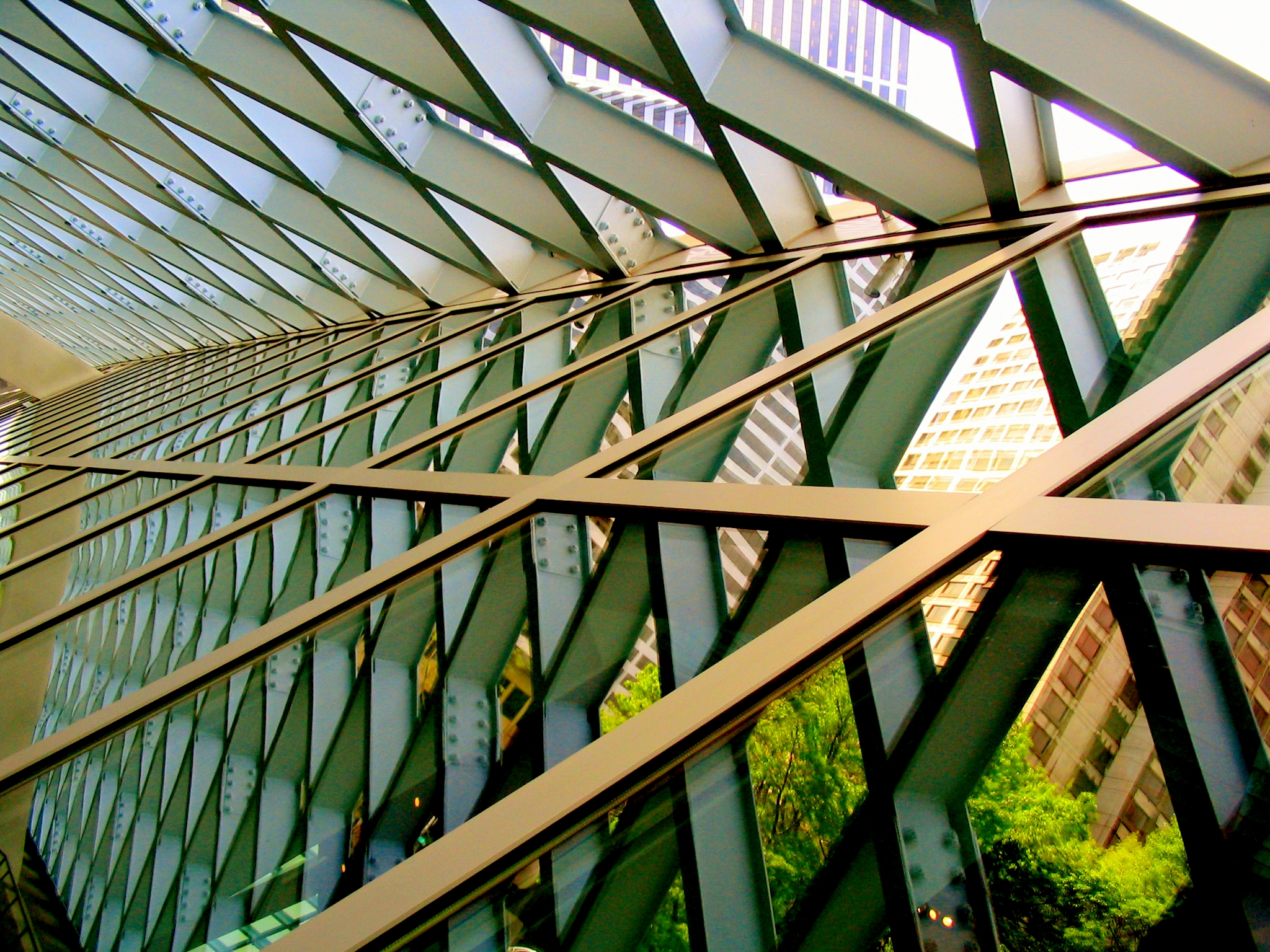 Seattle Central Library